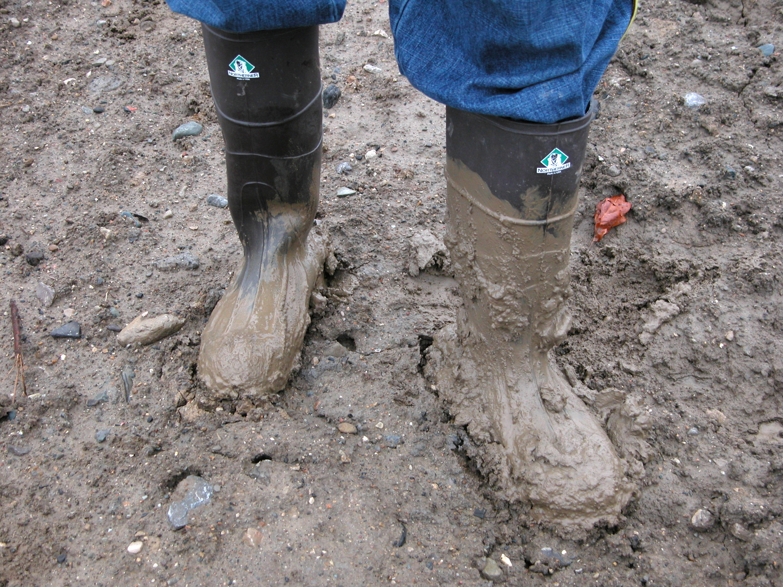 A pair of Northern boots worn in the mud in Pioneer, Ohio.